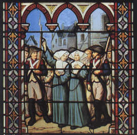 Stained glass-window of the Saint-Louis-du-Champ-des-Martyrs chappel in Avrillé, showing two nuns taken to their execution by french republican soldiers during the massacres of Avrillé from january 12 to february 10, 1794.